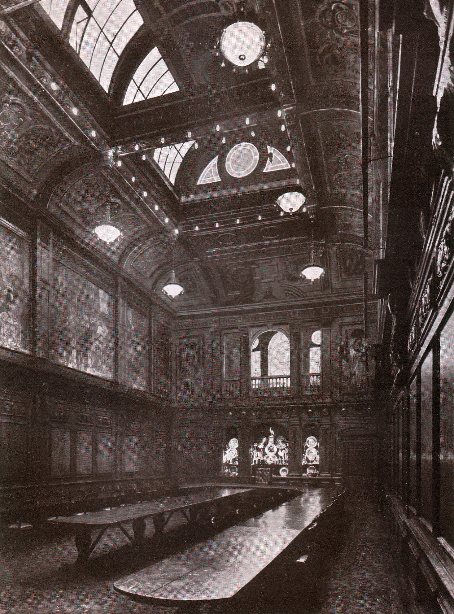 SKINNERS' Hall, Dowgate Hill, in the city of London. Destroyed by fire 1666. Rebuild 1668-1669. Interior restored 1890-1891. Reproduced by kind permission of the Worshipful Company of Skinners. Souvenir of the British Exhibit in the Hall of Nations IPA Leipzig, May-September, 1930. English edition. Page 16 (-18): Some Notes of the History of The Worshipful Company of Skinners of London.